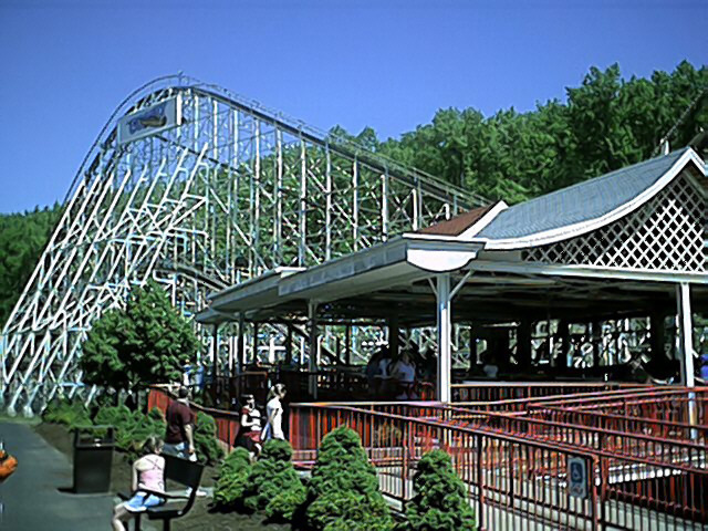 Photo taken by me at the Great Escape on 5/28/06.